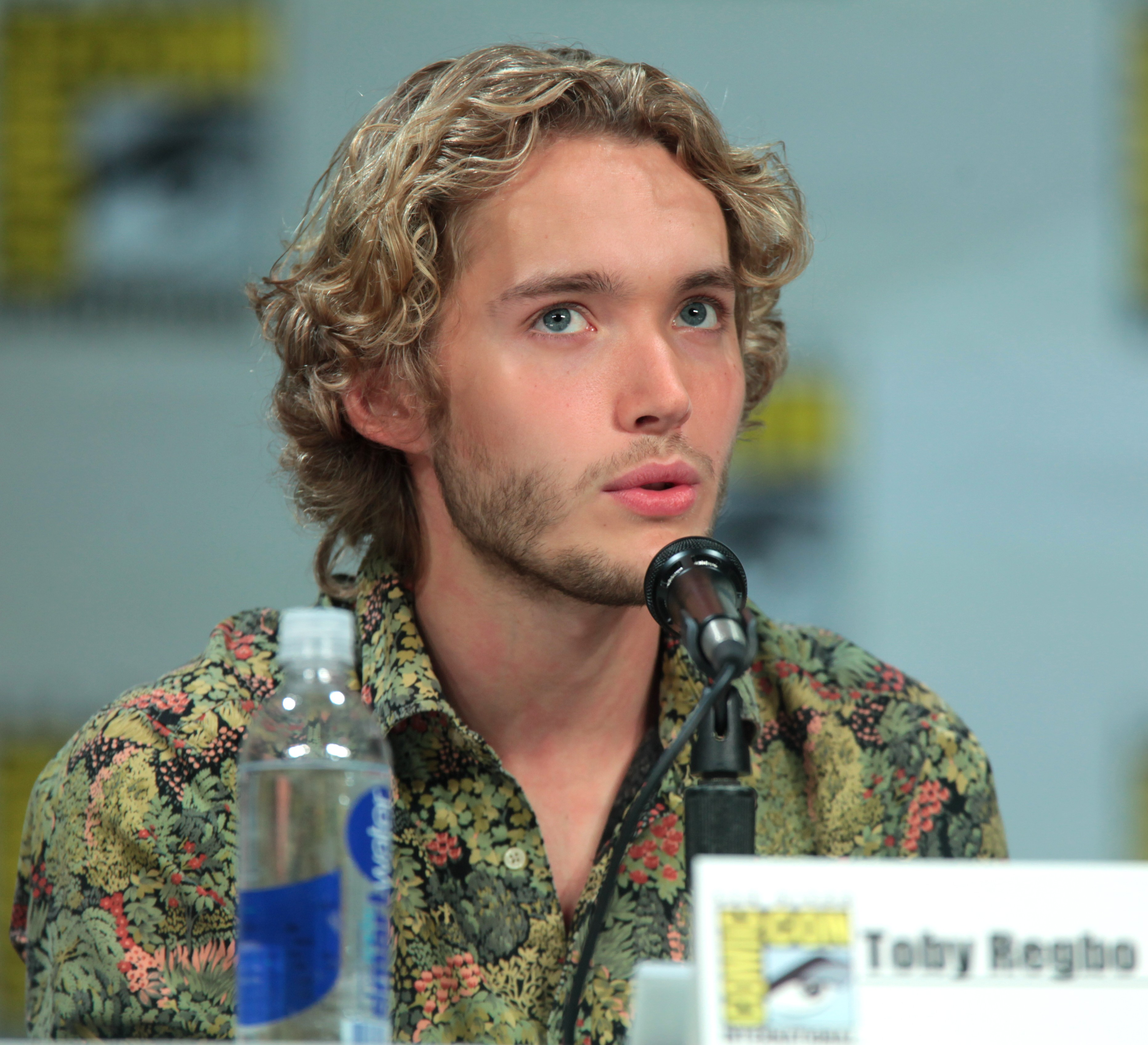 Toby Regbo speaking at the 2014 San Diego Comic Con International, for "Reign", at the San Diego Convention Center in San Diego, California.